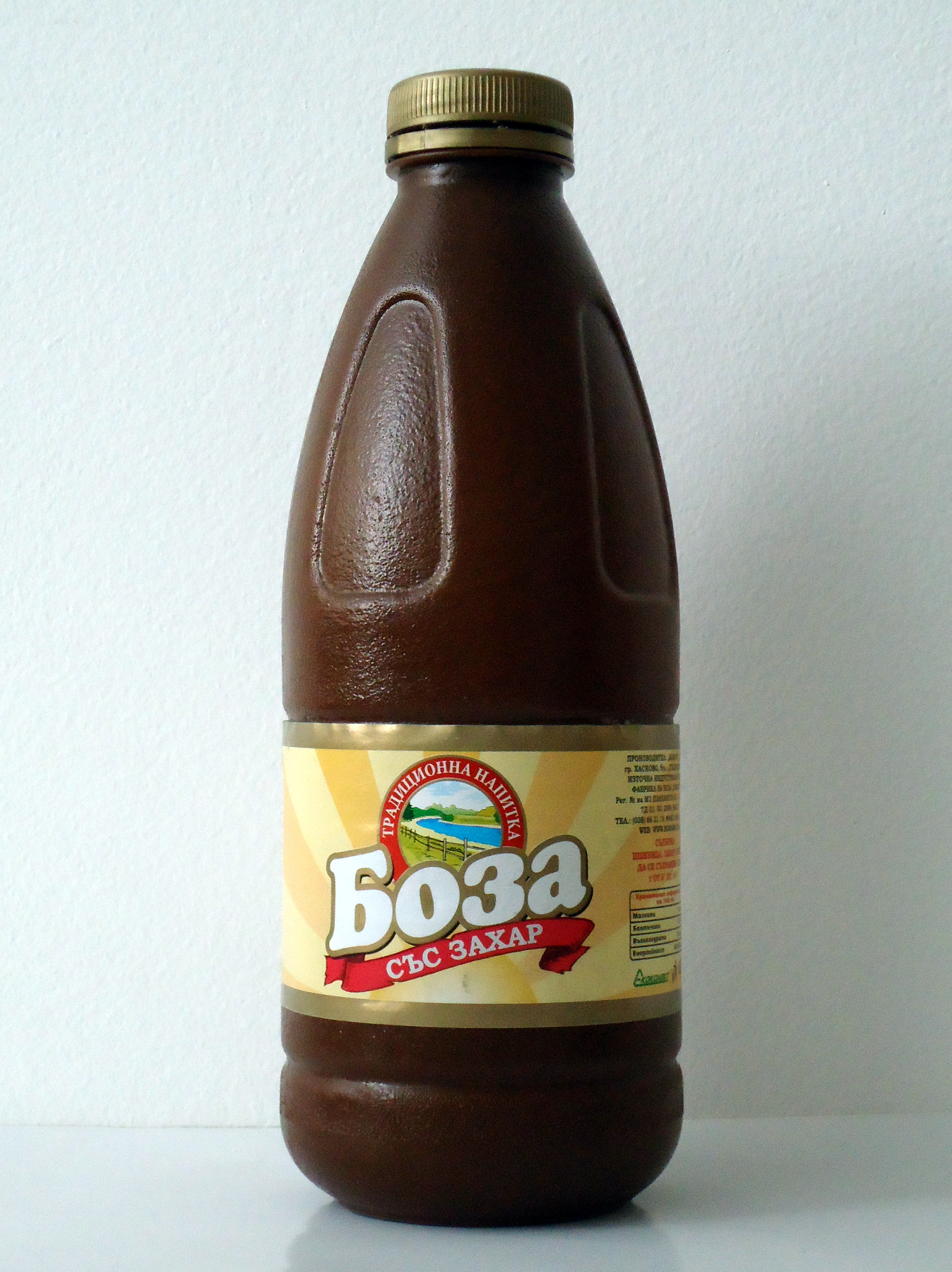 Boza BG